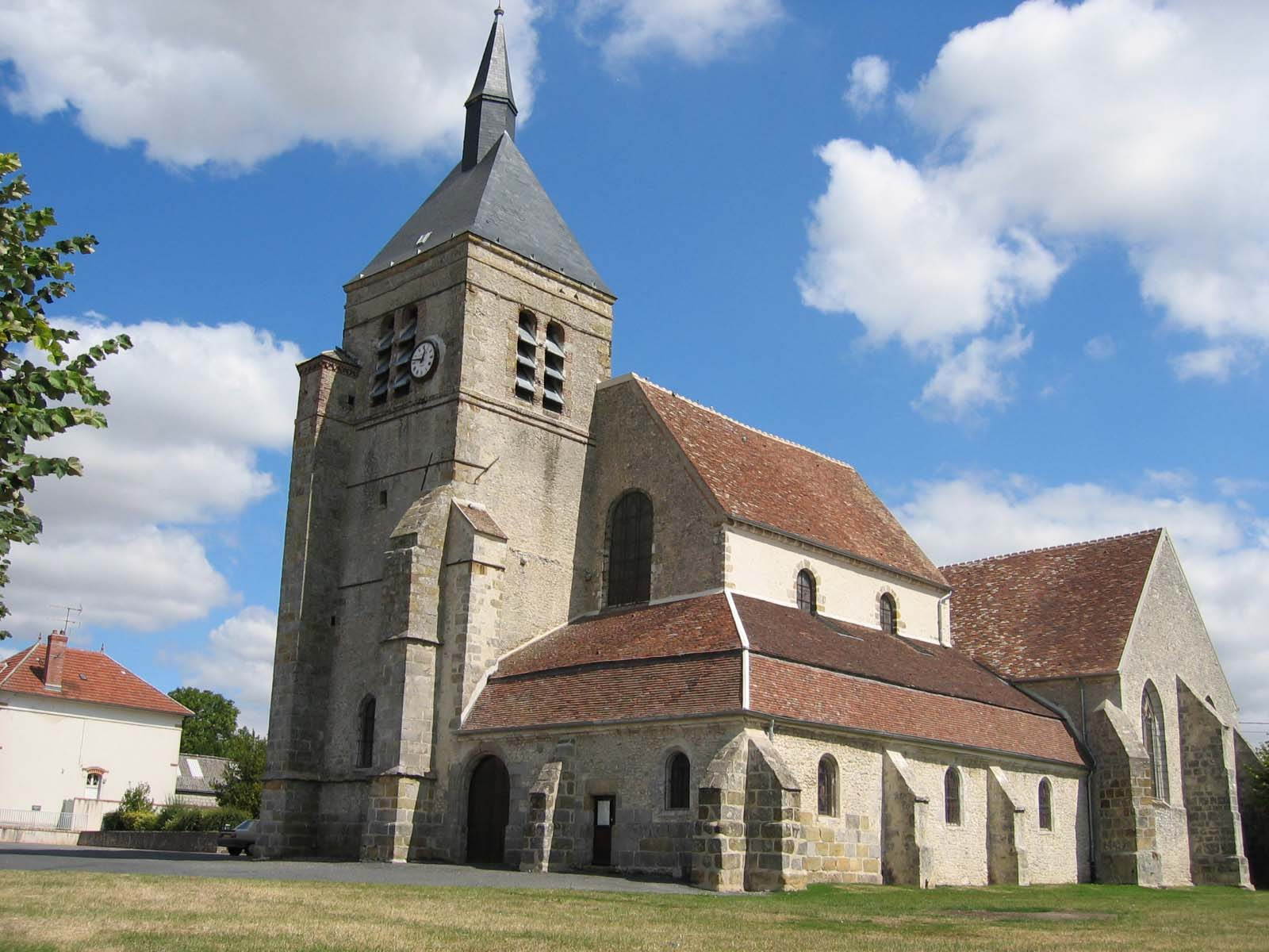 Chenoise's Church